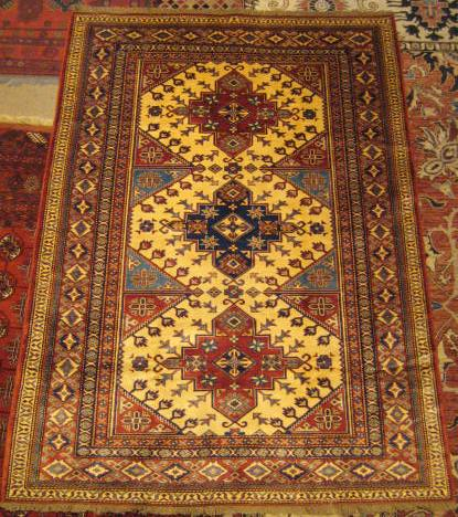 Carpet